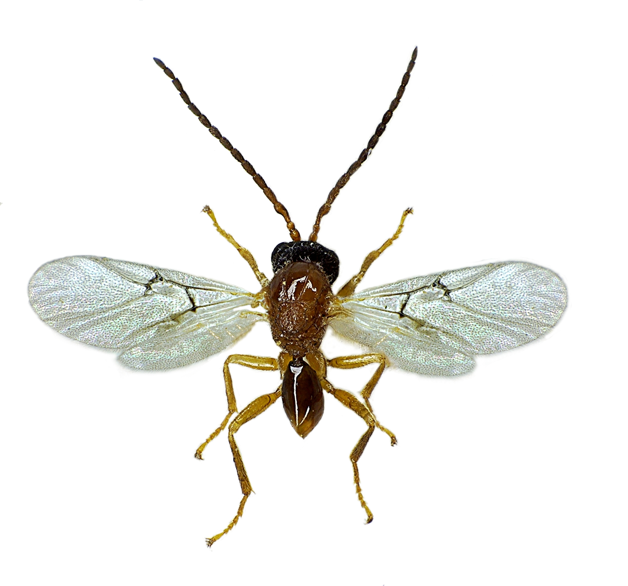 Male of Biorhiza pallida remark: usually the wings are folded on the back